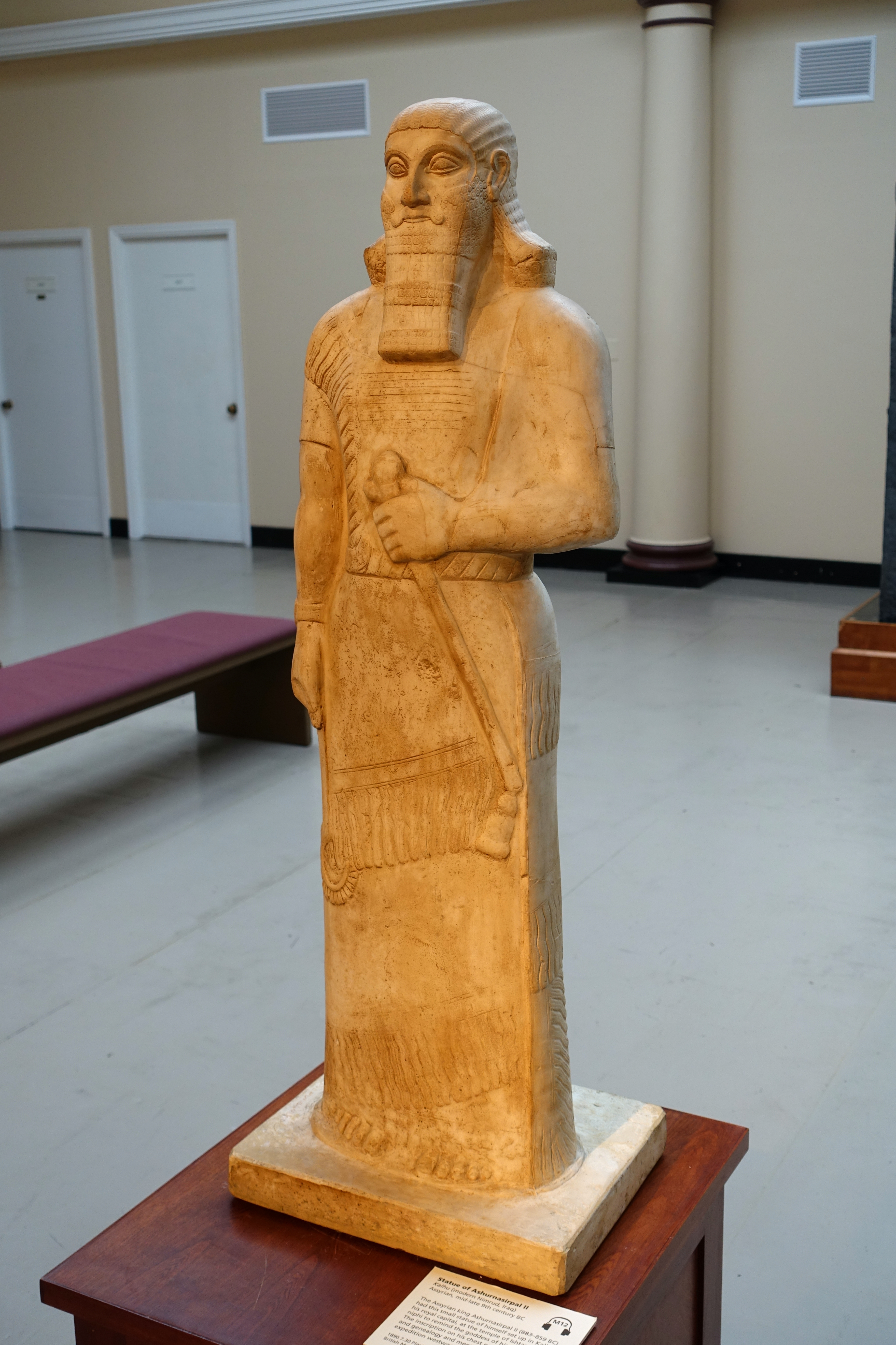 Exhibit in the Harvard Semitic Museum, Harvard University - Cambridge, Massachusetts, USA. This work is old enough so that it is in the public domain.